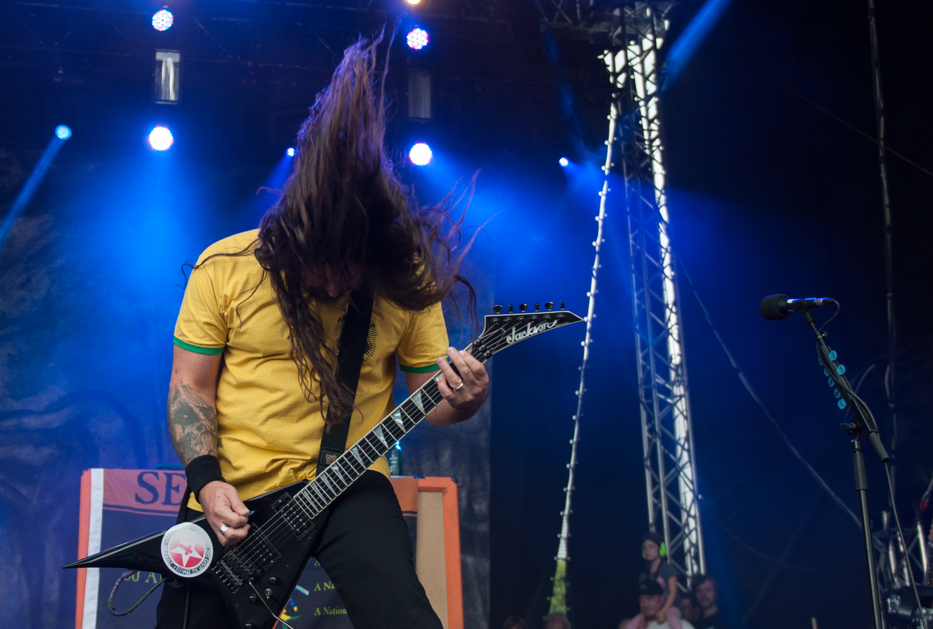 Sepultura at Vainstream Rockfest 2014